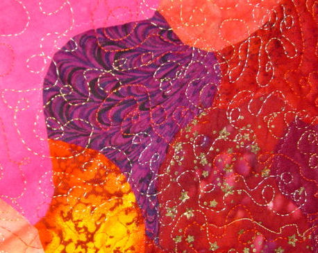 Closeup crop of Image:Detail_of_sun_quilt.jpg described below